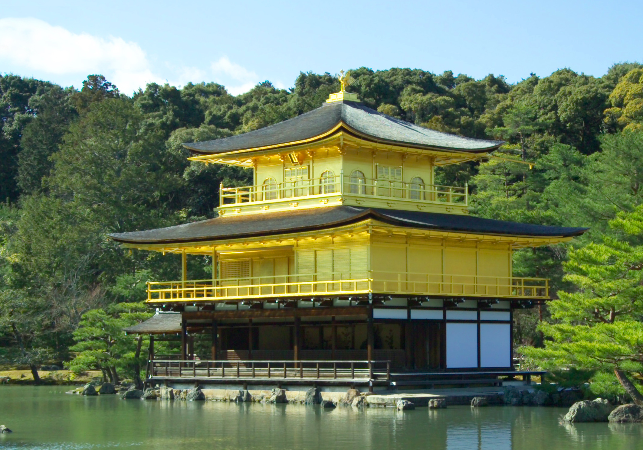 The building in this photograph is the Kinkaku, or Golden Pavilion, which is the shariden at Rokuonji, the Temple of the Golden Pavilion, in Kyoto, Japan. Same exposure as Image:Kinkaku3402.jpg and Image:Kinkaku3402CB.jpg (see gallery). I retouched the upper left corner to remove some pine needles.